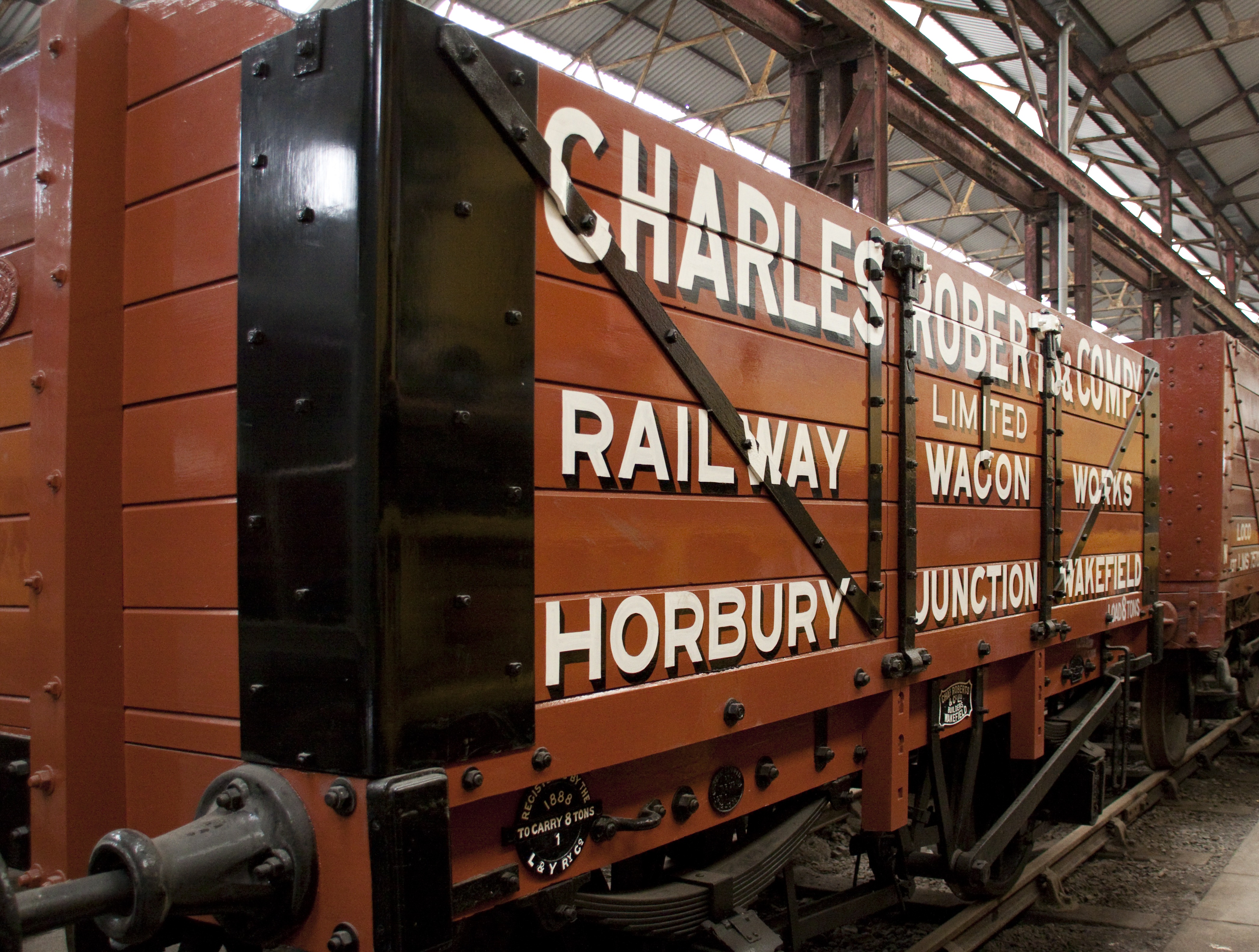 I haven't any real interest in Wagons, but Horbury Junction was my first experience of Steam engines